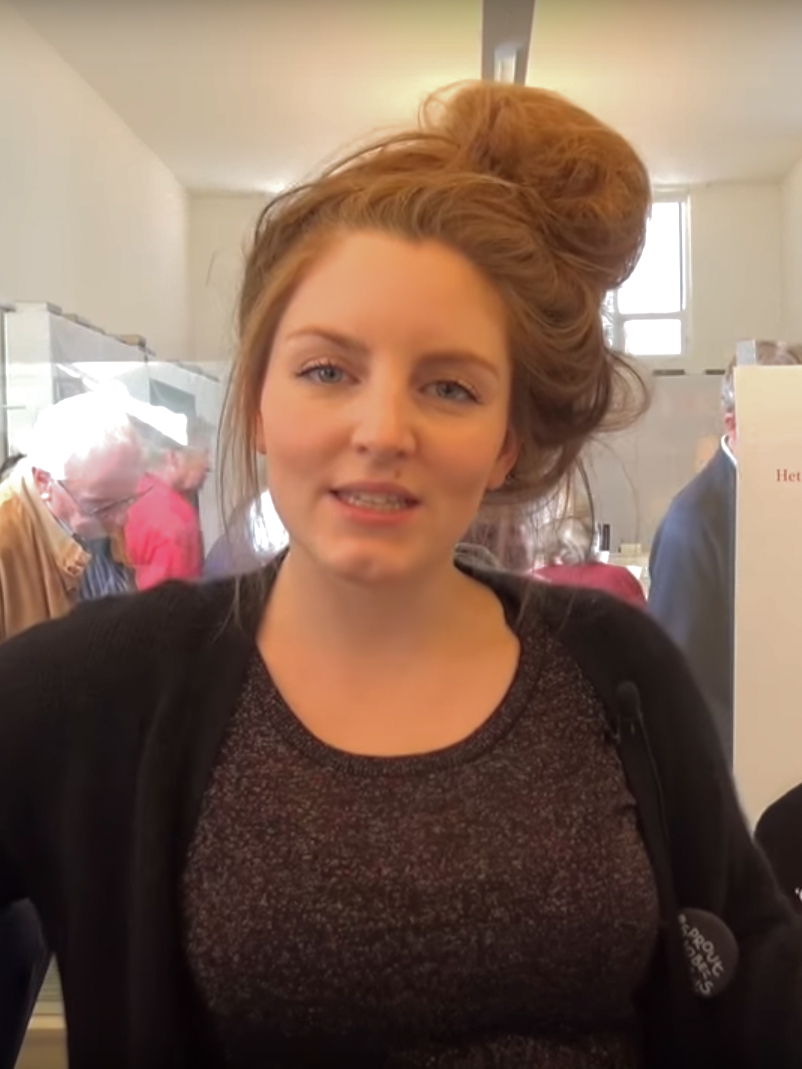 Lize Spit 15-10-2016